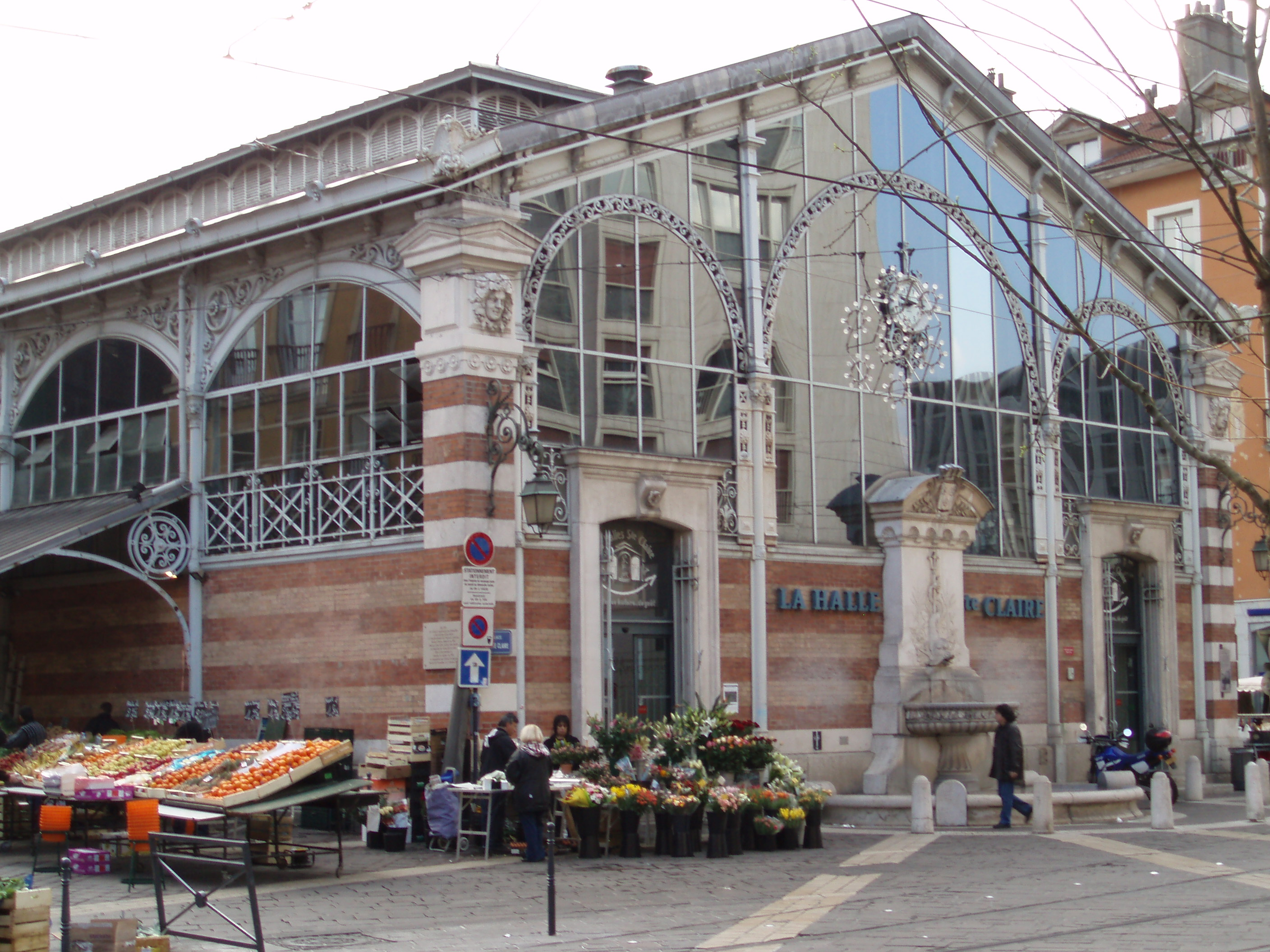 Halle Sainte-Claire à Grenoble